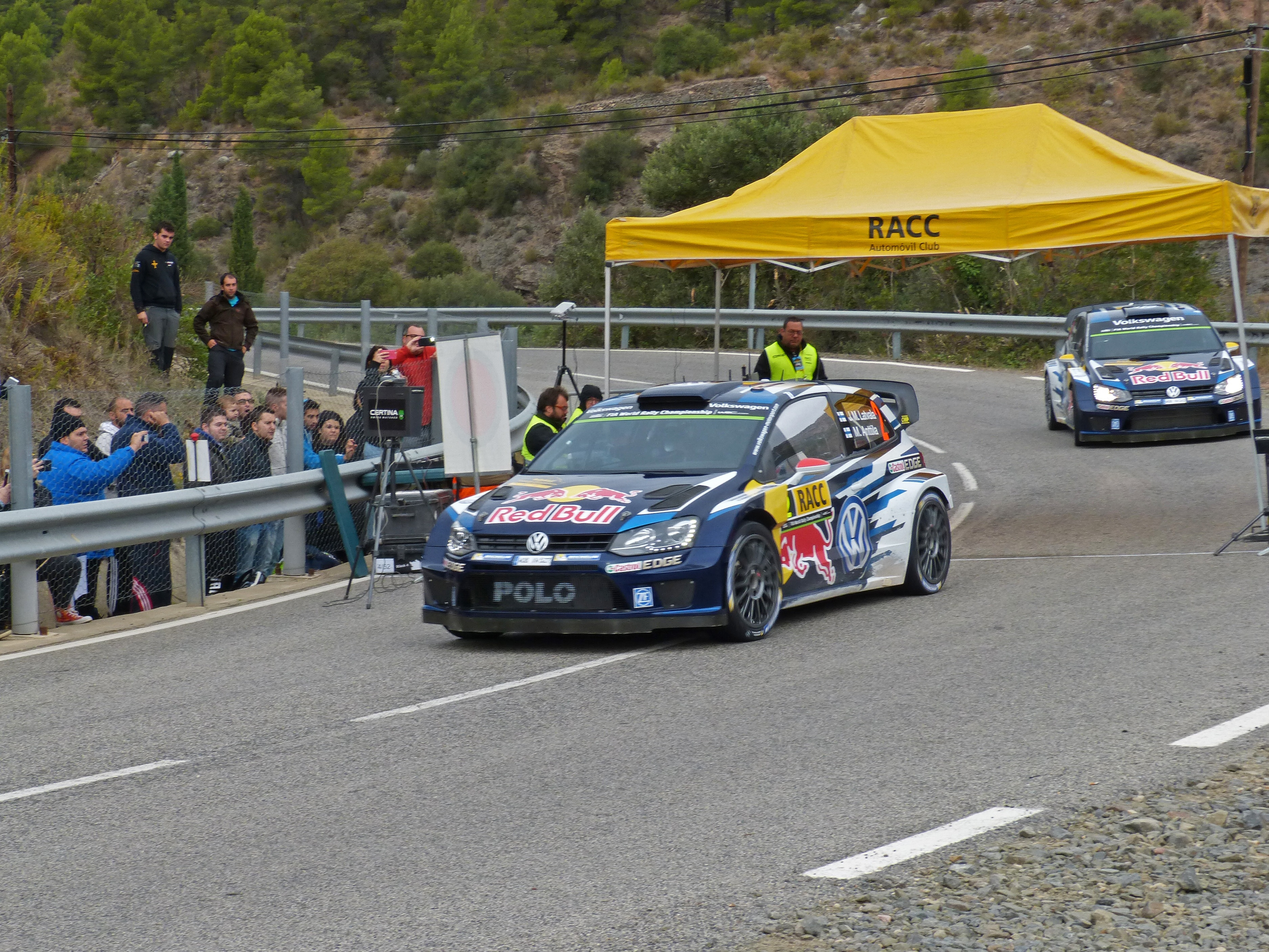 2015 Rally Catalunya Jari-Matti Latvala